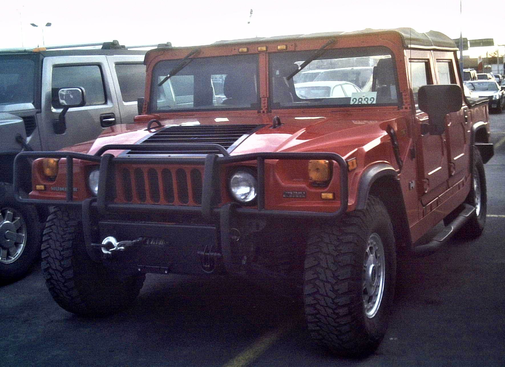 1994-2006 Hummer H1 convertible photographed in Montreal, Quebec, Canada.